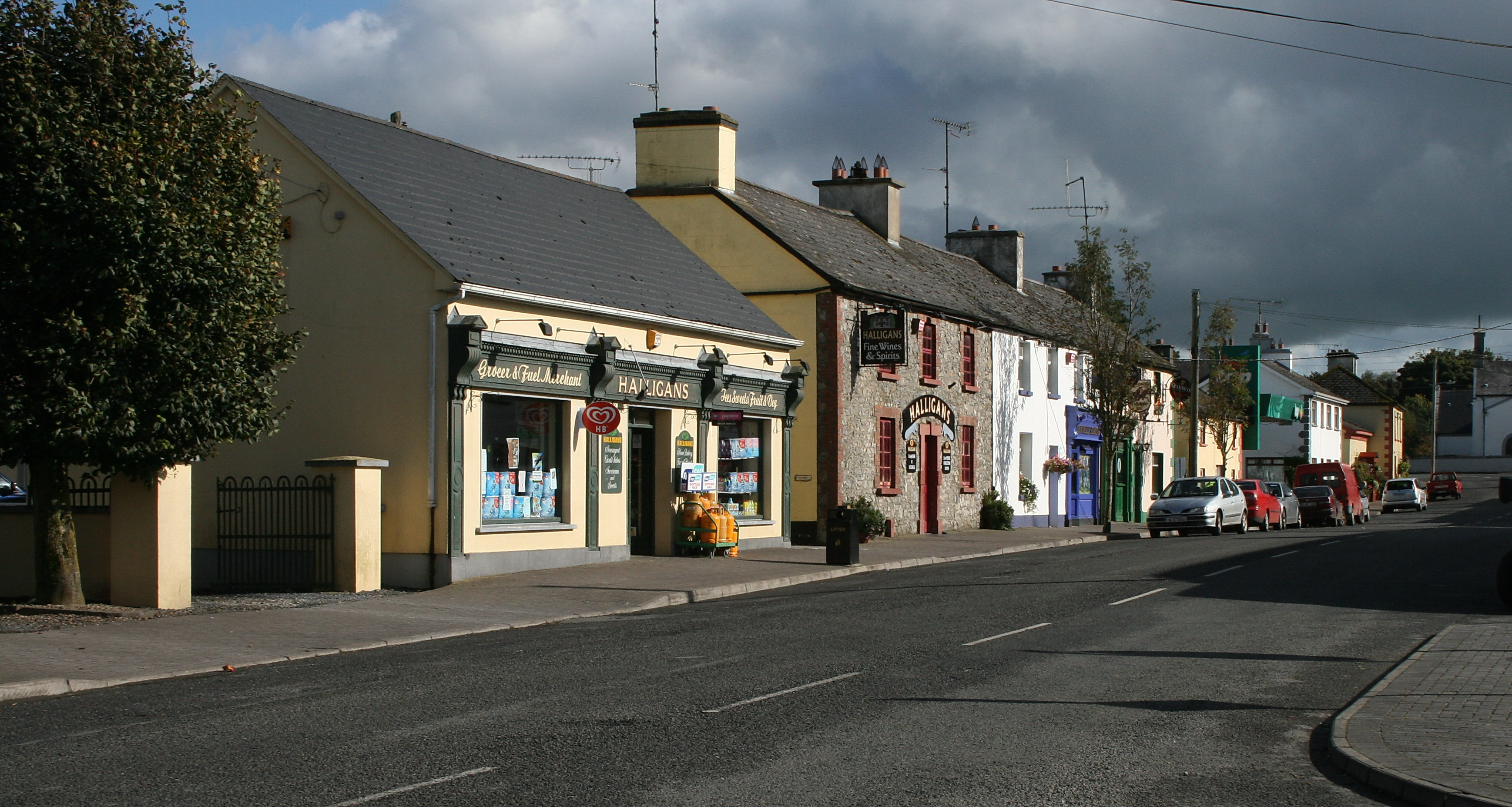 Ballynacargy, County Westmeath, near to Baile na Carraige and New Town, Westmeath, Ireland. On the R392, the Royal Canal also runs through the village.